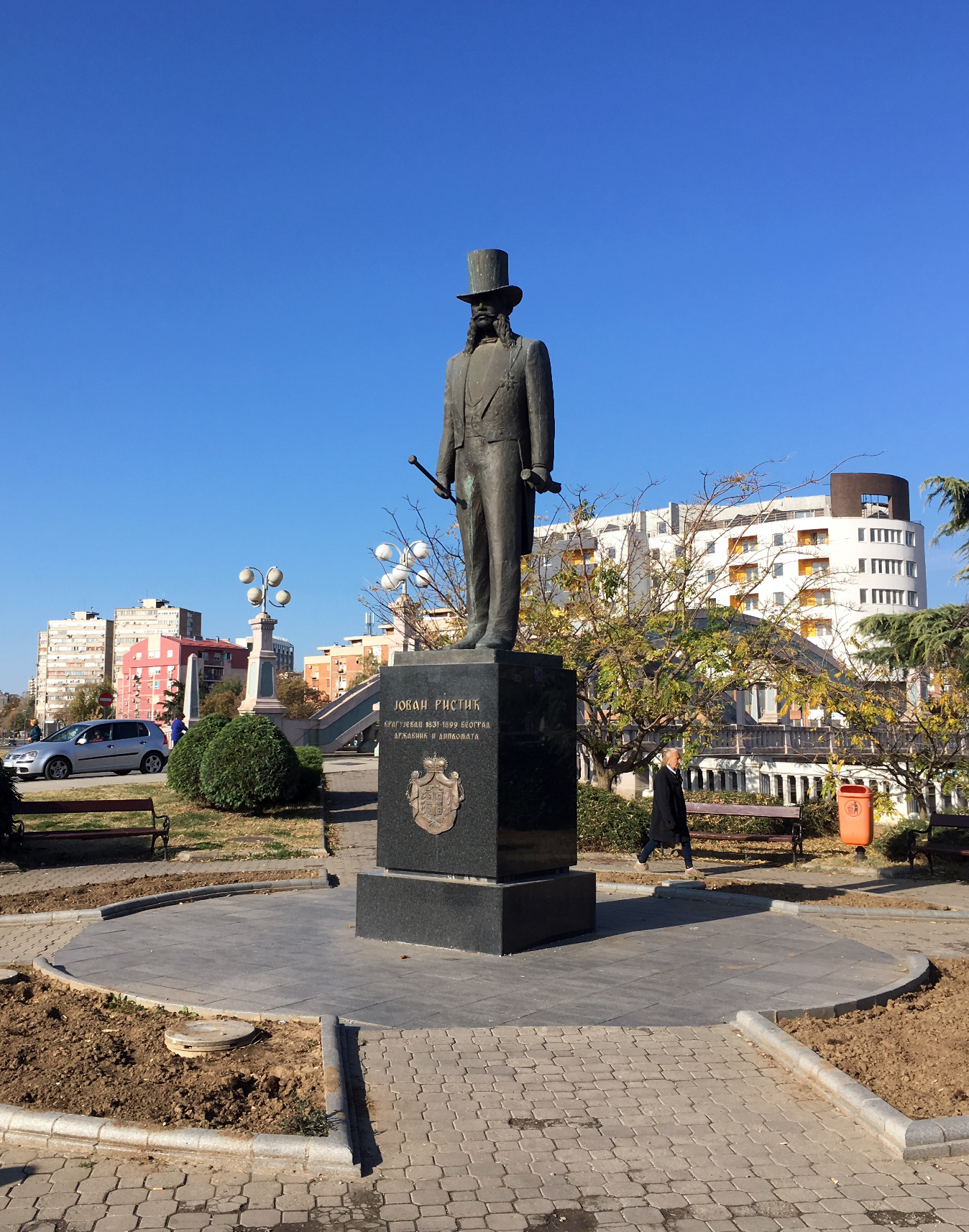 A statue of Serbian politician and diplomat Jovan Ristić in Kragujevac.